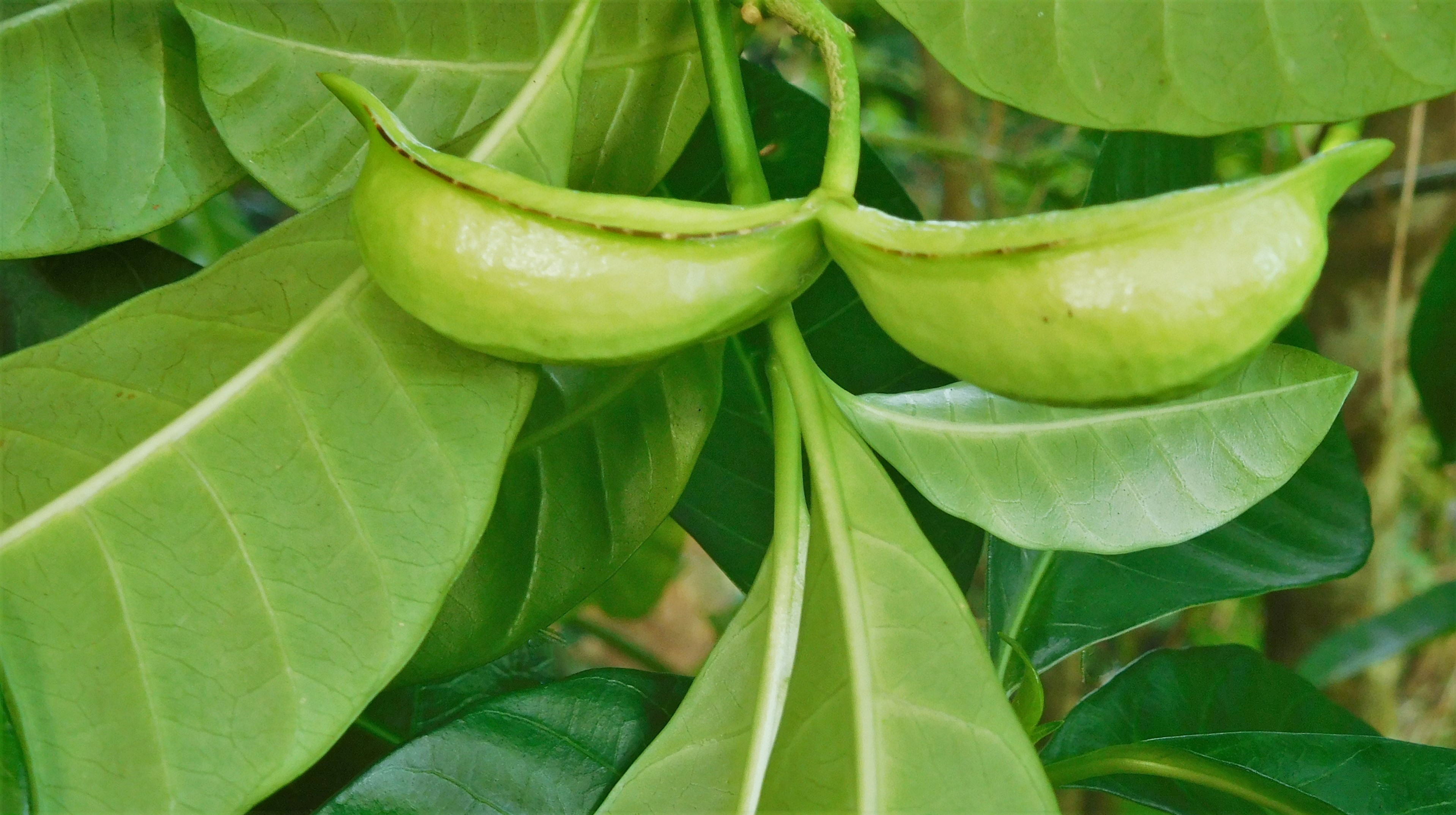 Milkwood